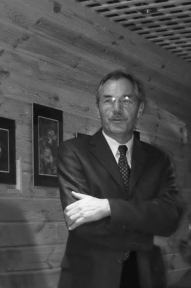 This image about the leader of Semmelweis University, Budapest: Tivadar Tulassay.